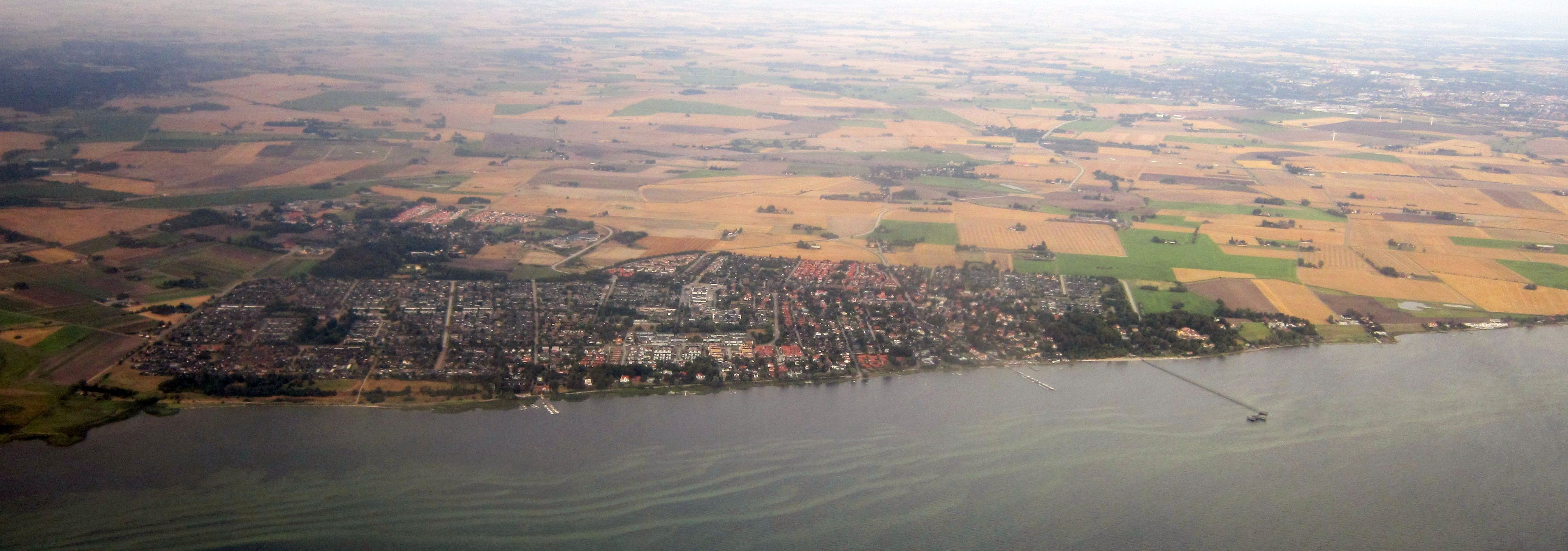 Aerial photo of Bjärred with its remarkable 500-meter pier